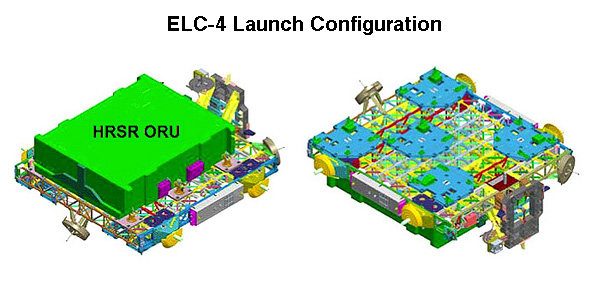 ELC-4 as seen in its launch congfiguration